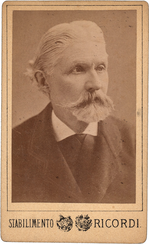 Portrait of Giuseppe Apolloni, composer (1822-1889). Photo by Pilotti & Poysel, Milano, before 1889.